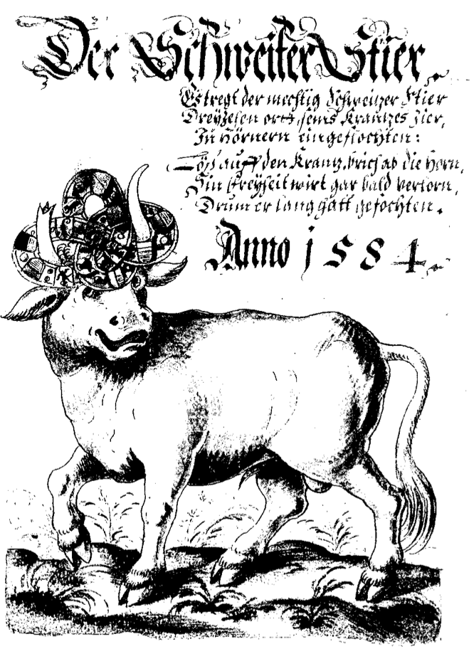 The "Swiss bull", allegory of the Swiss Confederacy, from the title page of the pamphlet Concordia aller 13 Orthen loblichen Eydtgnosschaft, printed in 1584, now in the Basel University Library. Text: Der Schweit er Stier. Es tregt der mechtig Schweitzer Stier Dreyzehen ort, seins krantzes zier, In hörnern eingeflochten: Löß auff den krantz, brich ab die horn, Sin freyheit wird gar bald verlorn, Drum er lang hatt gefochten Anno 1584